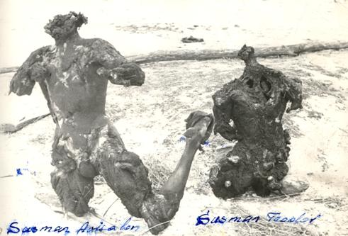 Photograph of the charred remains of Teodor and Visalon Șușman, anticommunist resistance fighters from Romania. Photo taken in 1958, part of the security police file